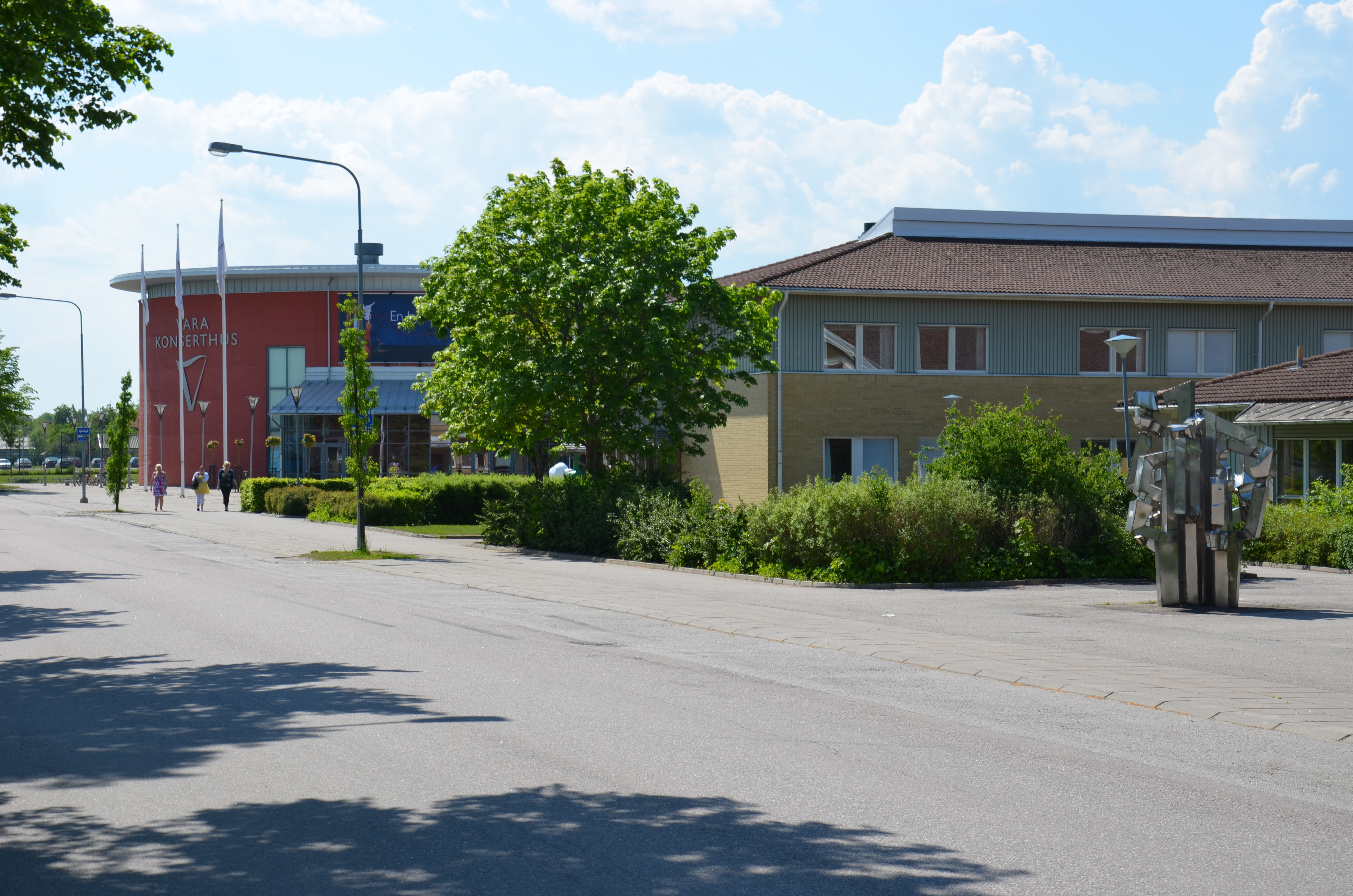 Vara Concert Hall and the Lagman School